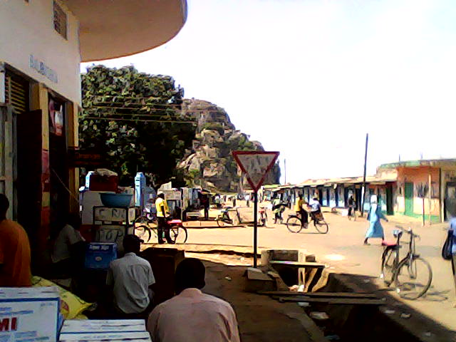 Soroti town in Uganda.